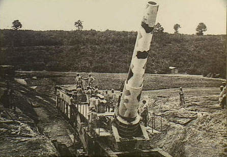 AWM caption : Somme Area, France. A French 400mm gun at the firing position at Ravin d'Harbonnieres.